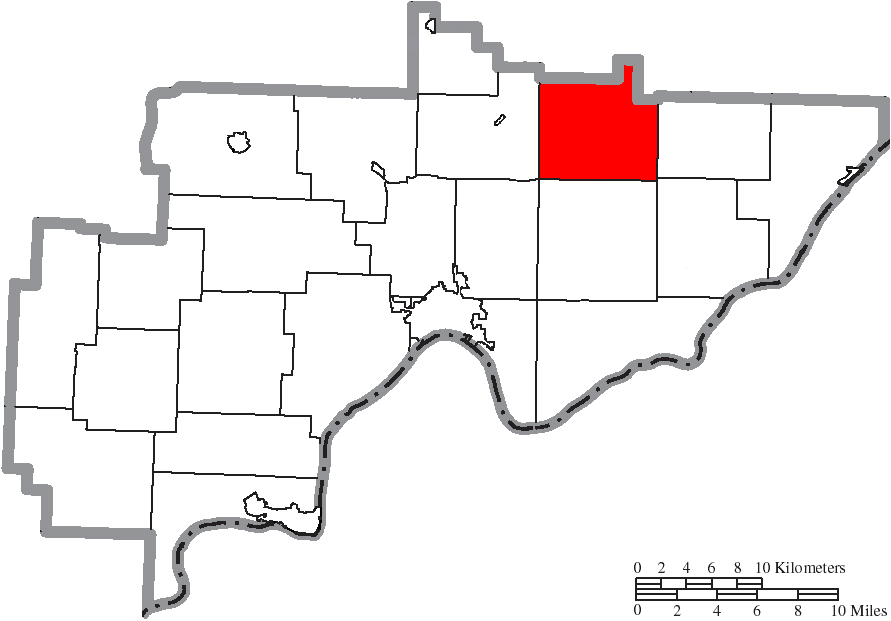 Map of the municipal and township boundaries of Washington County, Ohio, United States, as of the 2000 census, with the location of Liberty Township highlighted. Township borders are shown only in unincorporated areas in order to differentiate incorporated and unincorporated areas more clearly.